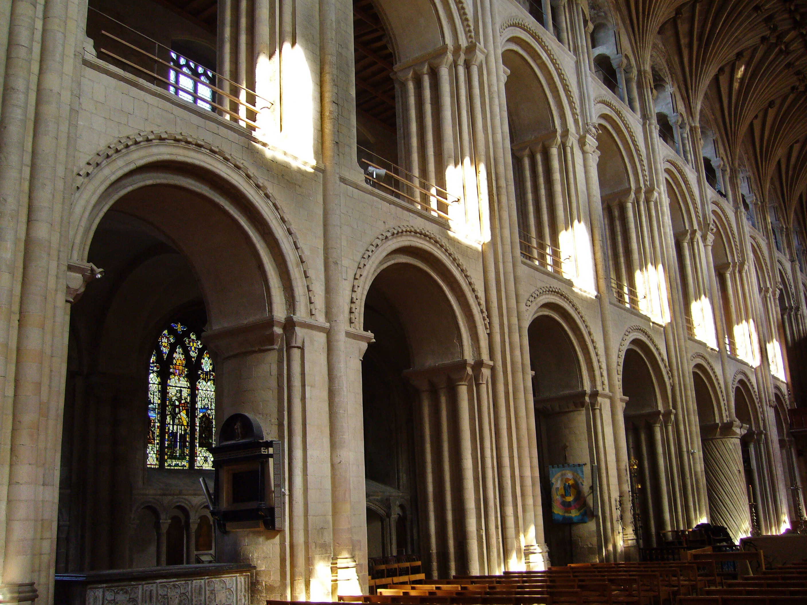 Norwich Cathedral